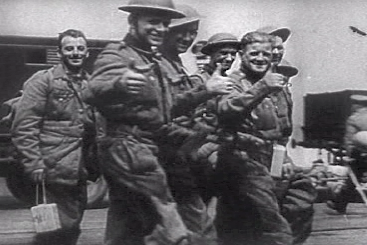 Dunkirk rescued British troops disembarked in England (1940). Screenhot taken from the 1943 United States Army propaganda film Divide and Conquer (Why We Fight #3) directed by Frank Capra and partially based on, news archives, animations, restaged scenes and captured propaganda material from both sides.